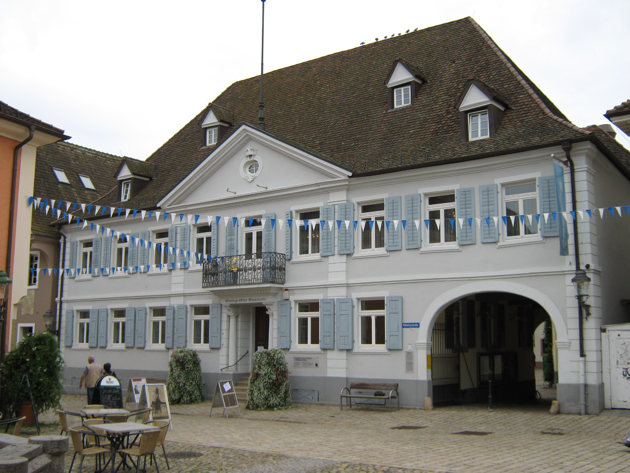 The house of the Markgräfler Museum in Müllheim (BAden), Southwest of Germany